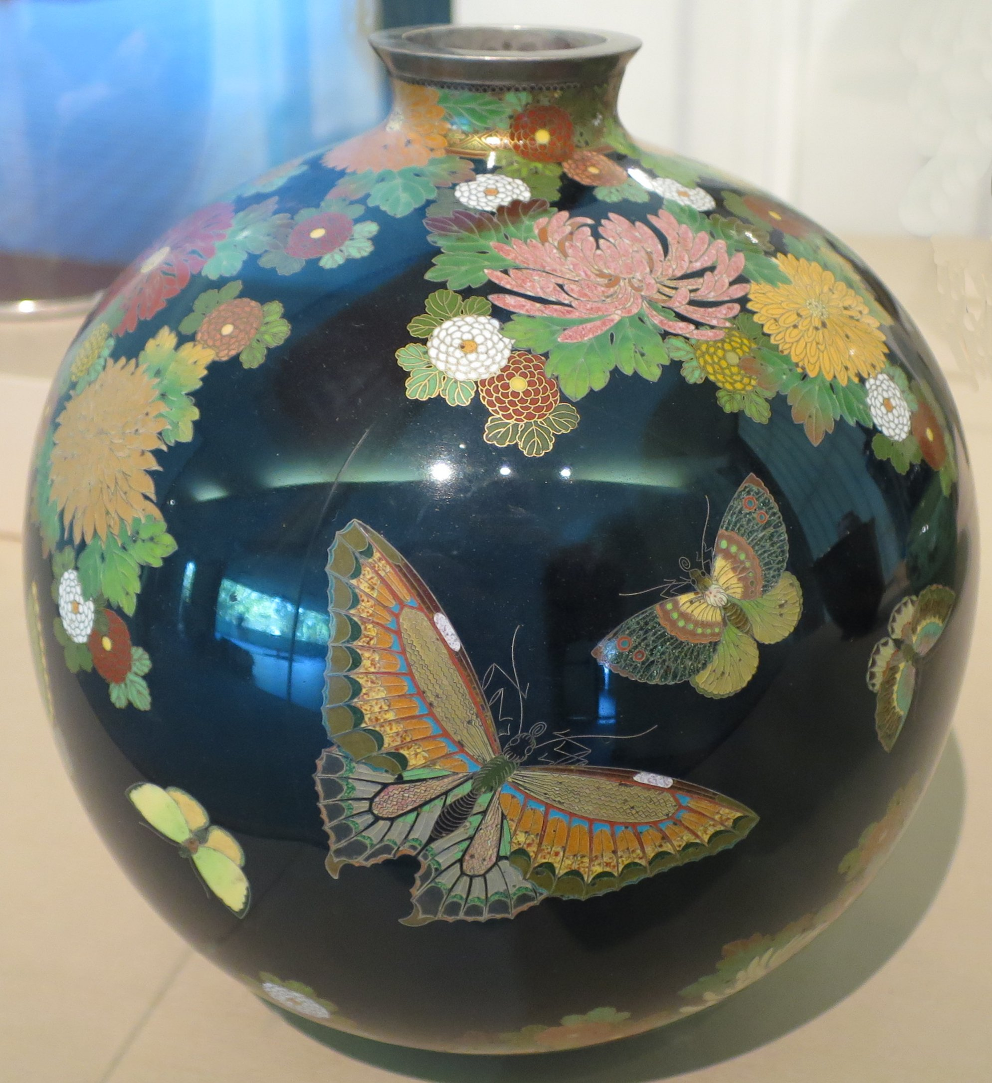 Cloisonné vase with design of butterflies and chrysanthemums by Namikawa Yasuyuki, c. 1900-1910, private collection